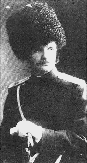 Pavlo Skoropadsky in Manzhuria